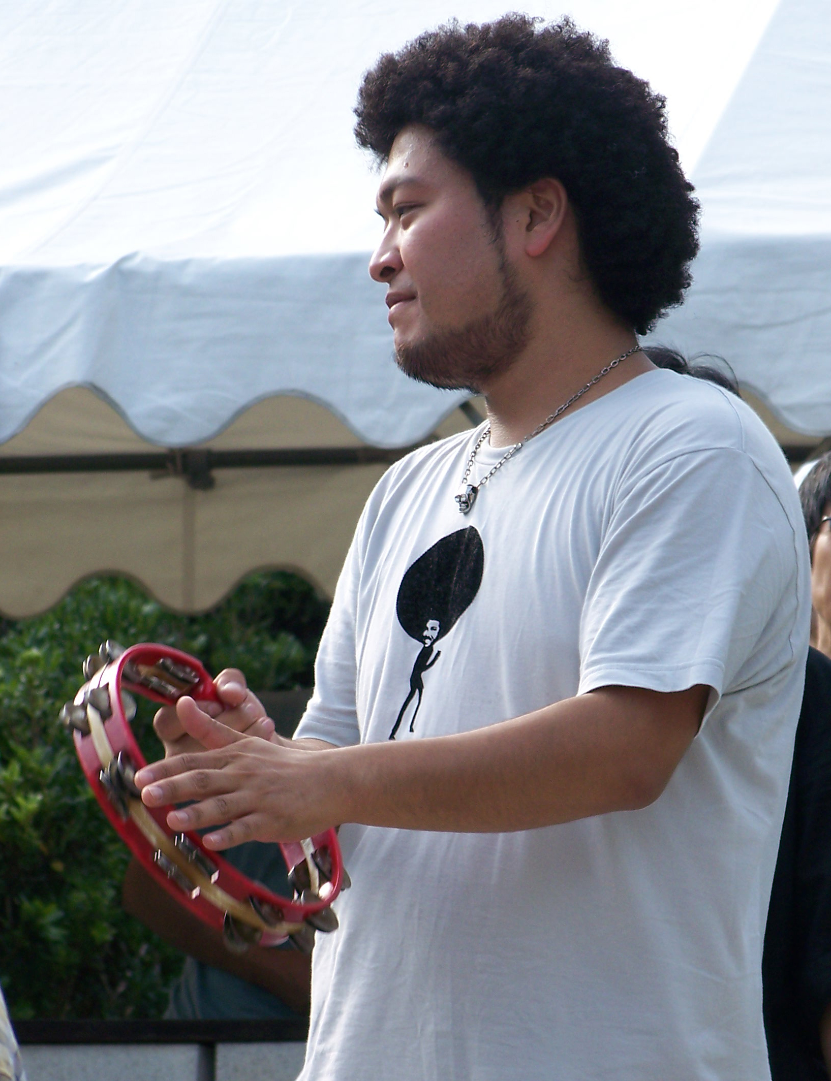 Midorin, drummer for the Japanese jazz band Soil & "Pimp" Sessions, at a music festival in Iwaki, Fukushima Prefecture, Japan